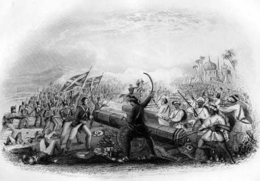 Battle of Assaye 1st Battalion 8th Regiment of Native Infantry charge at the cannon, led by Hugh Macintosh